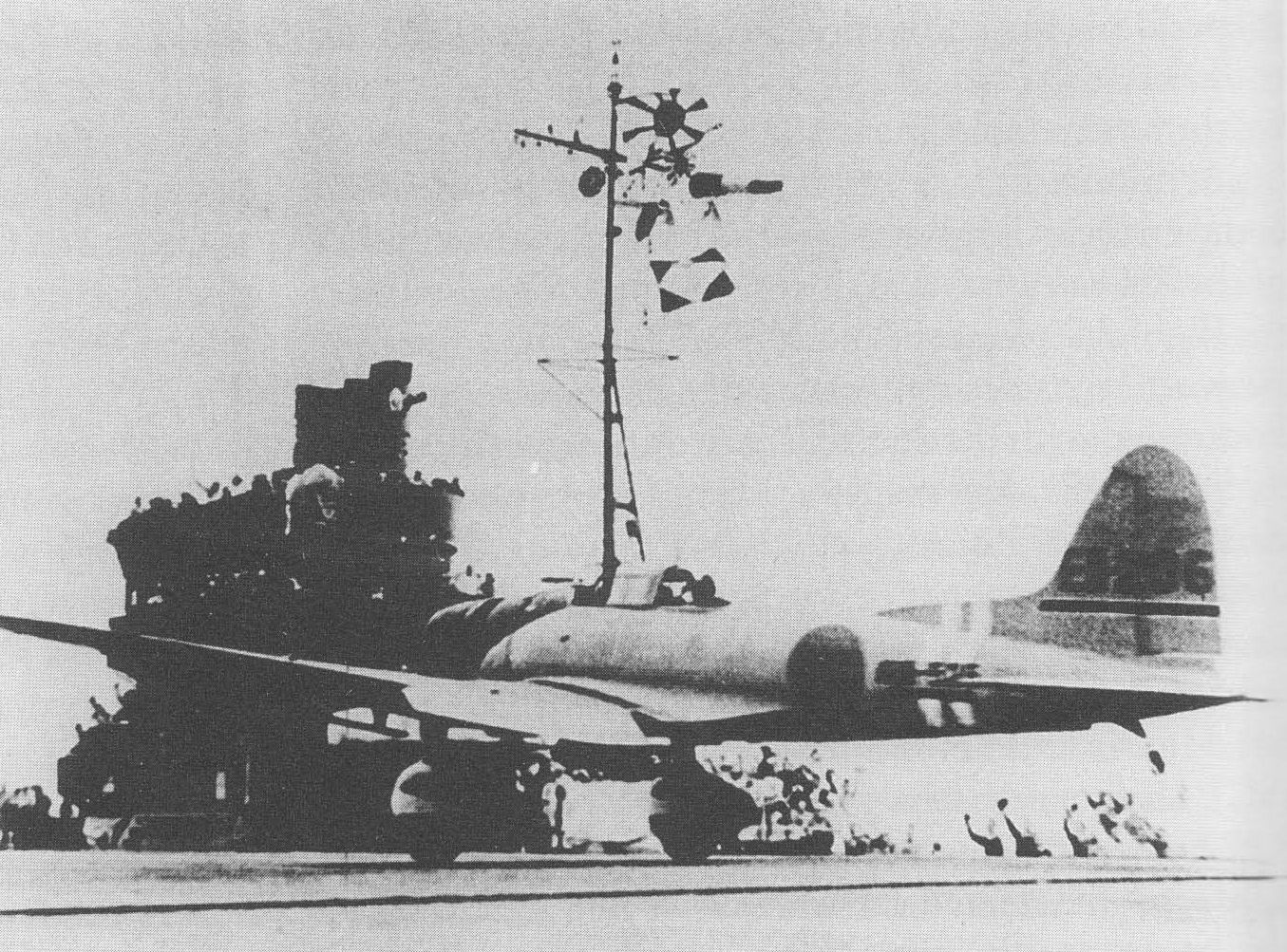 An Aichi D3A1 Type 99 carrier bomber (dive bomber) kanbaku carrying a bomb takes off from the Imperial Japanese Navy aircraft carrier Zuikaku on May 8, 1942 to attack United States Navy aircraft carrier forces during the Battle of the Coral Sea. This aircraft's tail code is EII-206 and the single horizontal stripe underneath the tail code indicates that it is flown by a section leader (shōtaichō). The double vertical white stripe around the rear end of fuselage is Zuikaku identifier.